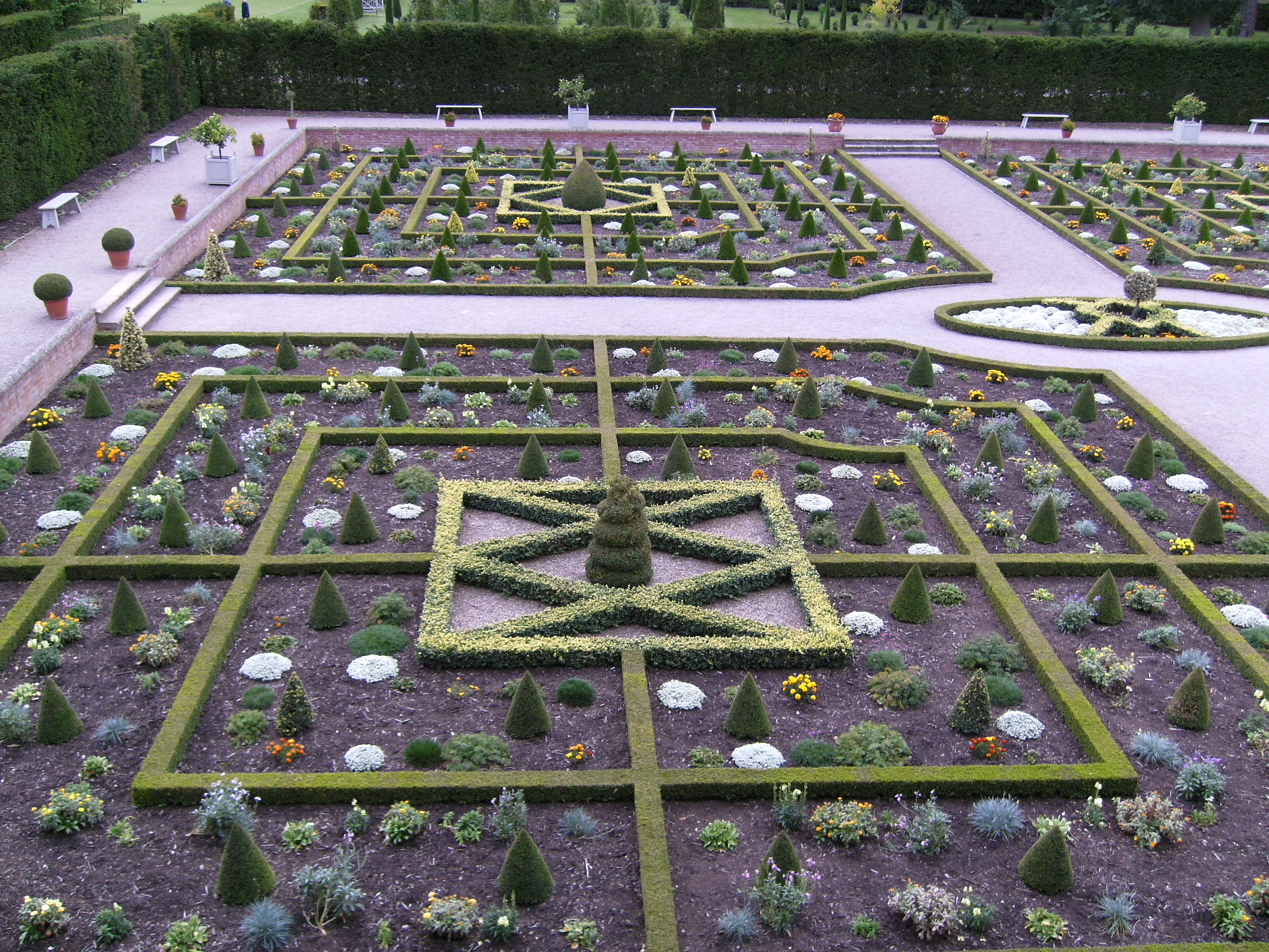 Hanbury Hall, Worcestershire, England: parterre viewed from first floor of hall.